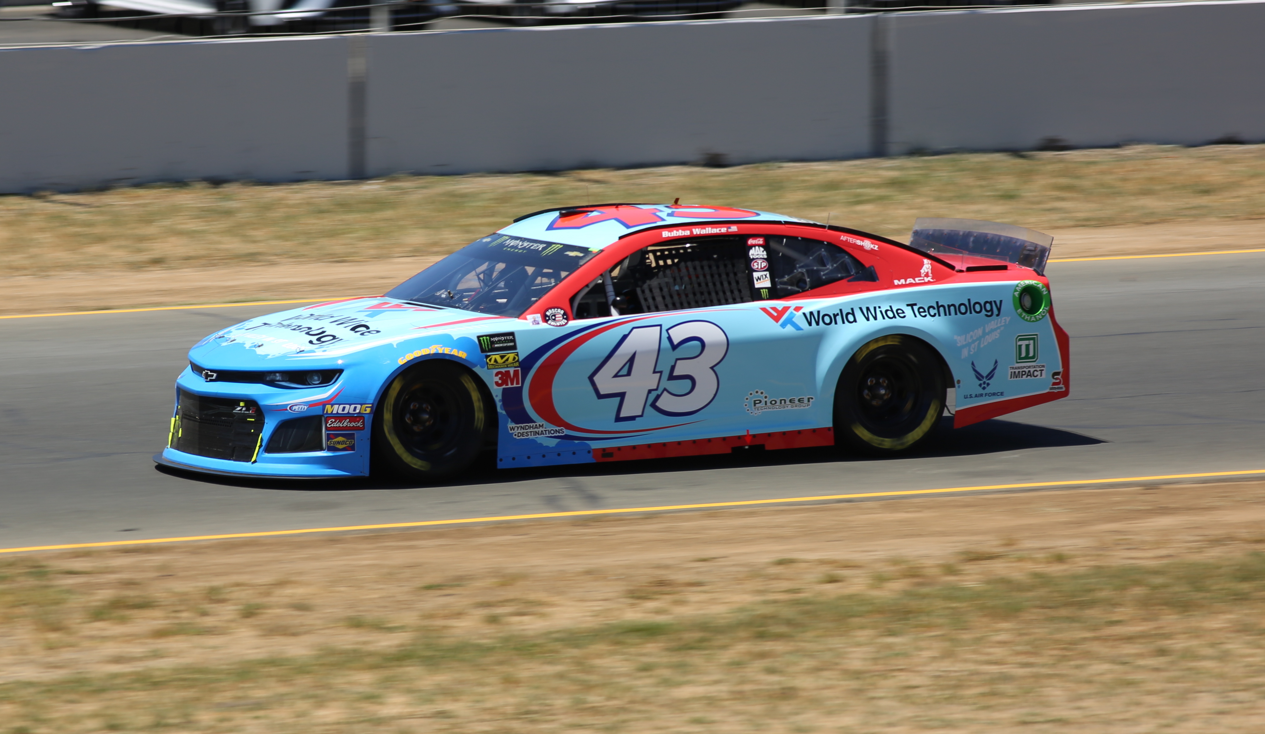 Bubba Wallace's No. 43 World Wide Technology Chevrolet at Sonoma Raceway in 2019